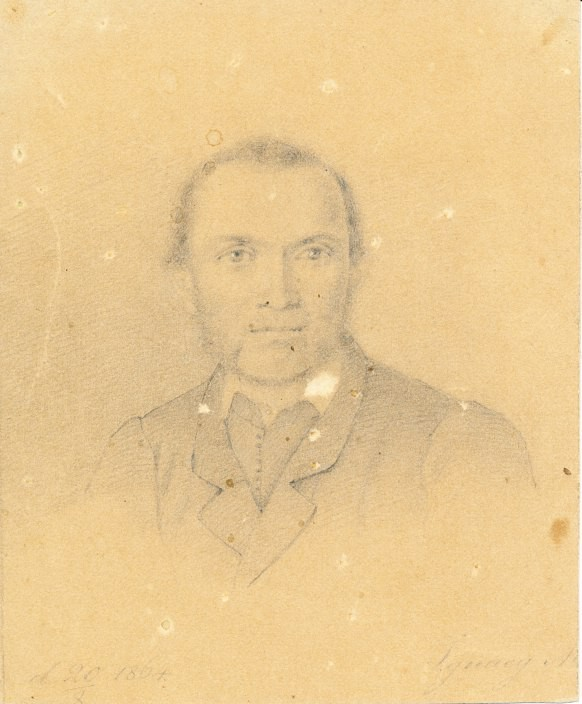 Rajmund Masłowski portrait, drawing, pencil on paper, of 1864, dimensions 98 mm x 120 mm Signature in left: "20/8 1864", signature in right: "Ignacy"